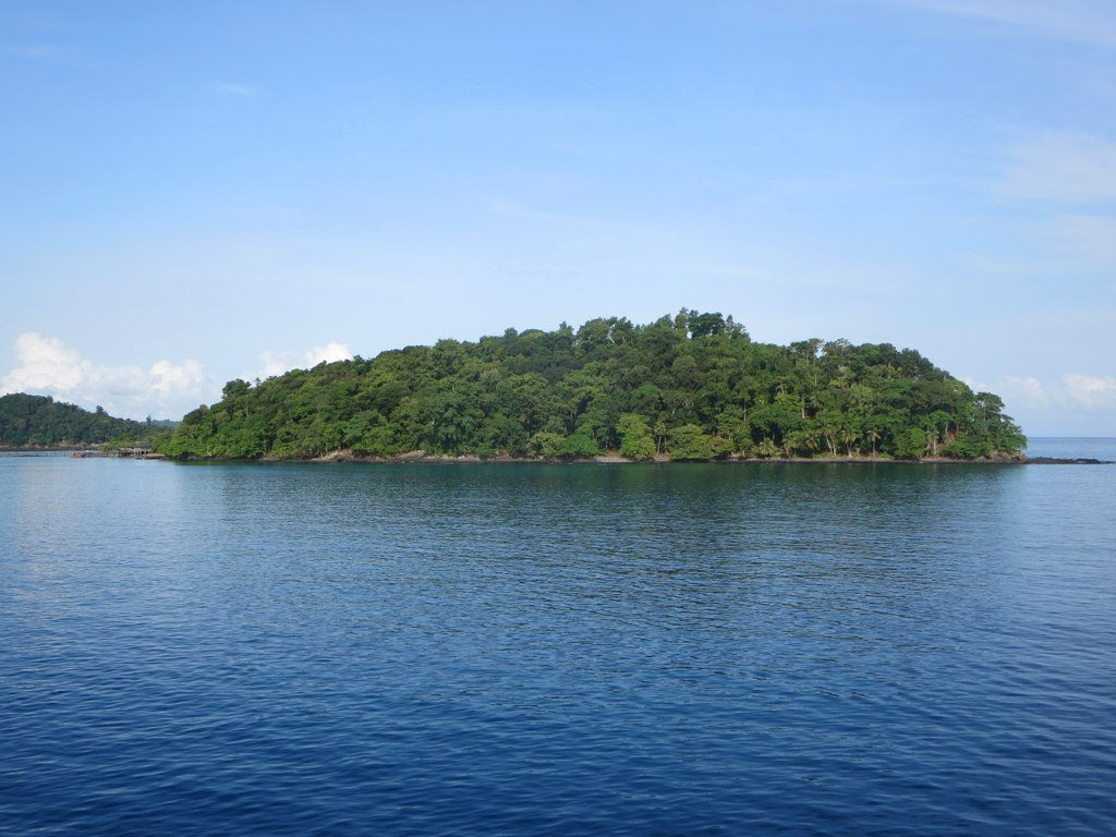 Button-sized Bom Bom Island is just off the northern tip of Principe Island, São Tomé and Príncipe.